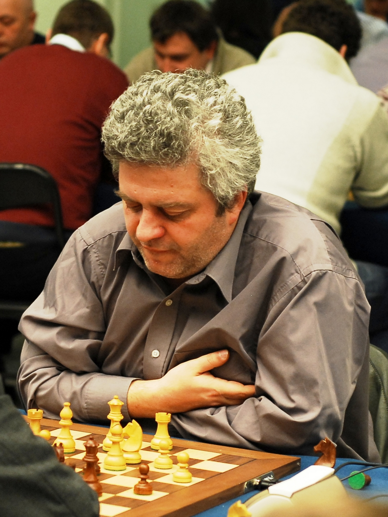 GM Andrei Istratescu, European Rapid Chess Championship, Warsaw 2012.